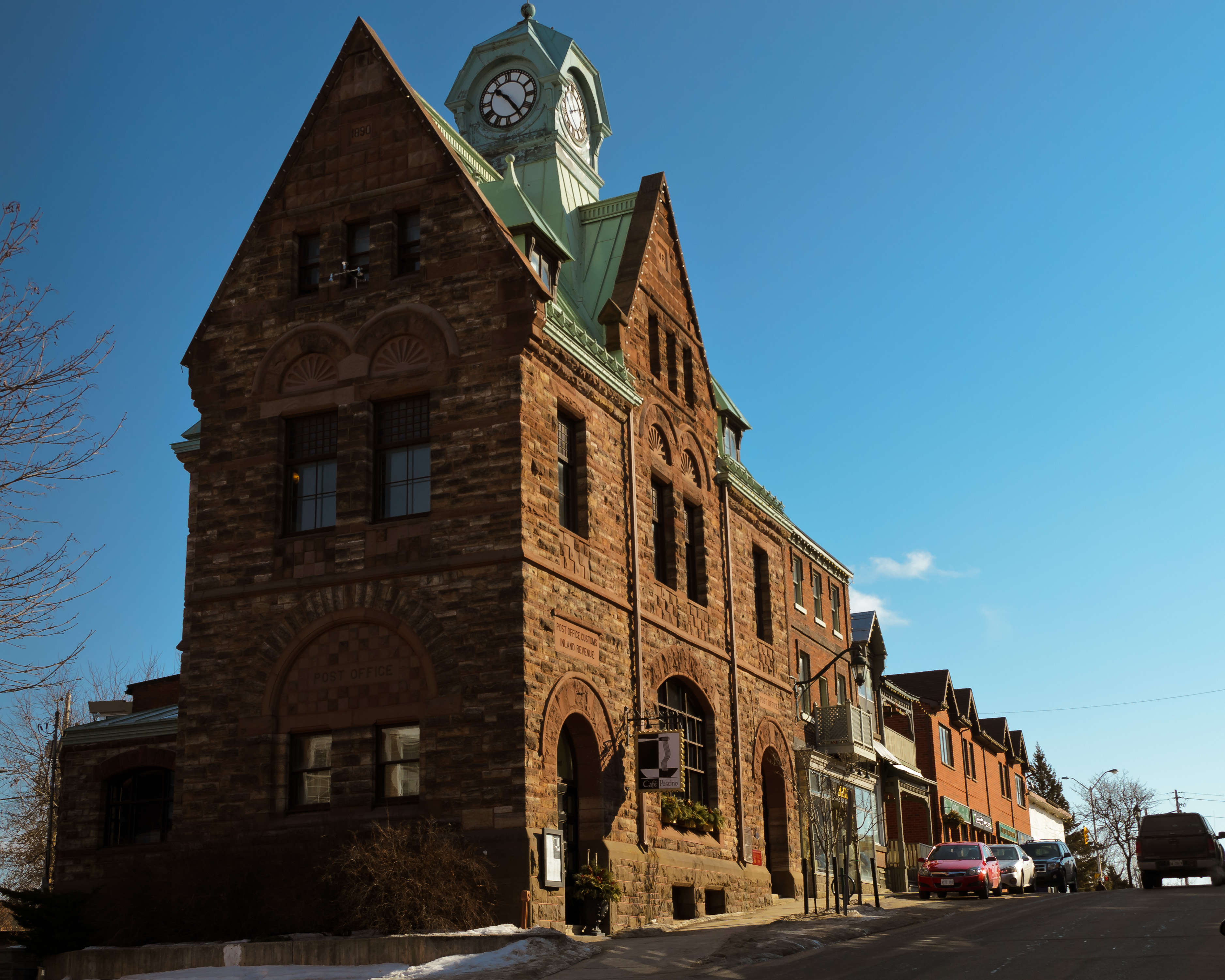 Old Post Office, Almonte Ontario